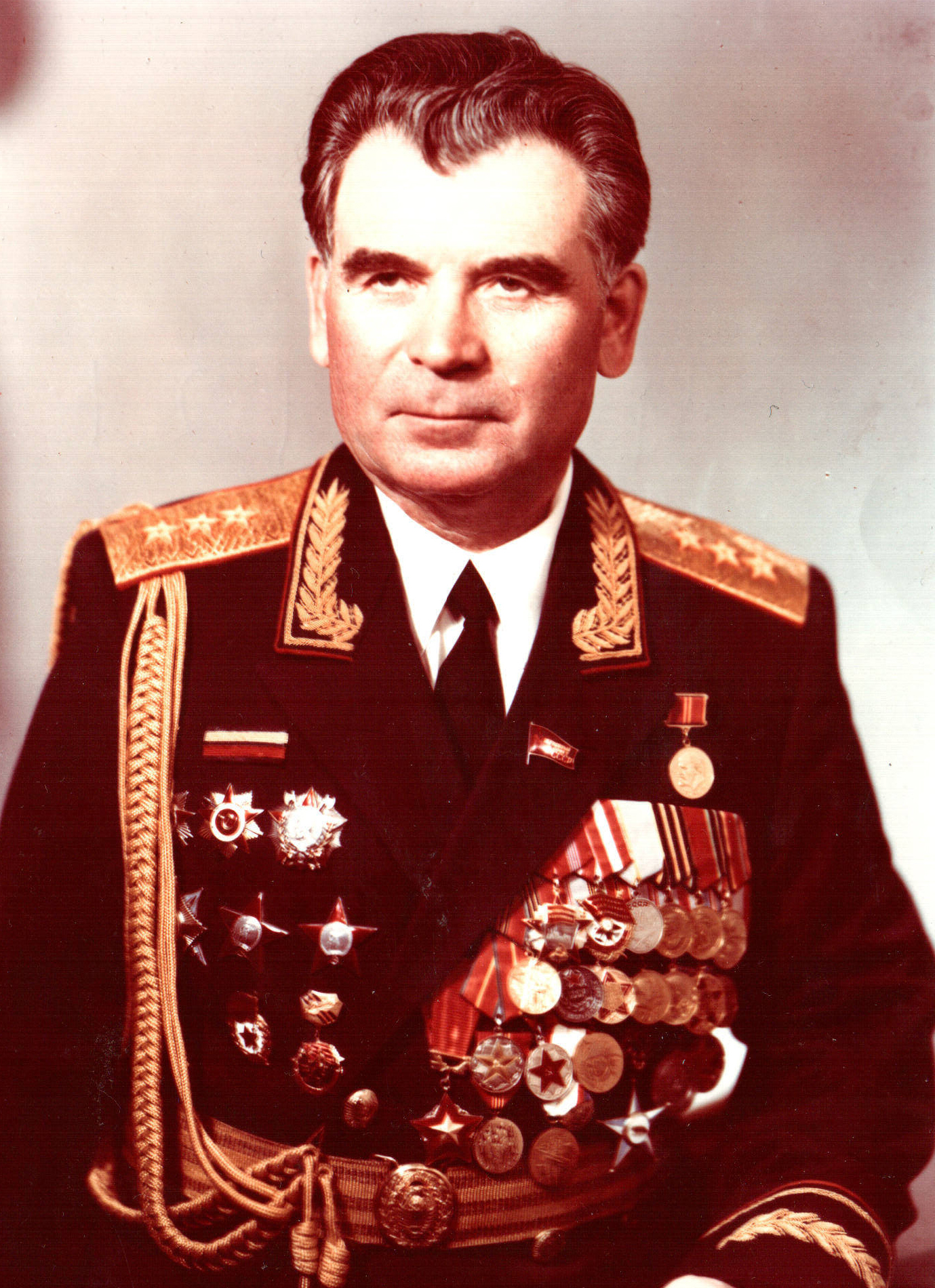 My grandpa: Grigory Grigoryevich Borisov, colonel general of the Soviet Army.